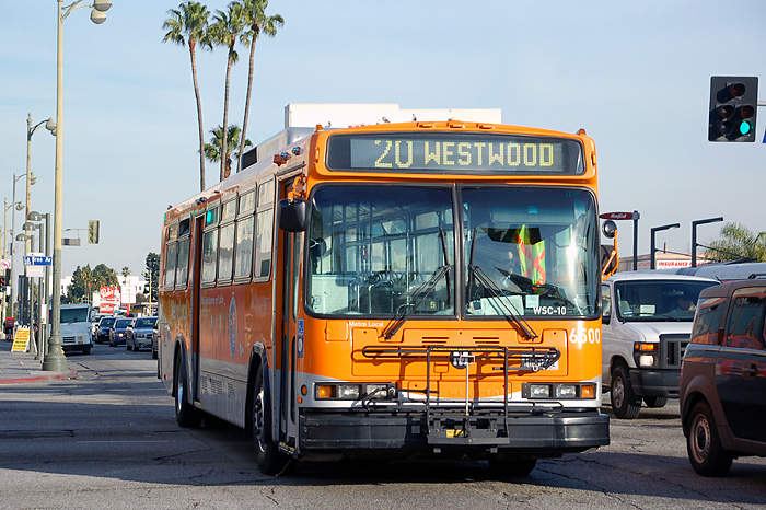 LACMTA Neoplan USA AN-440A #6500, in Metro Local livery.